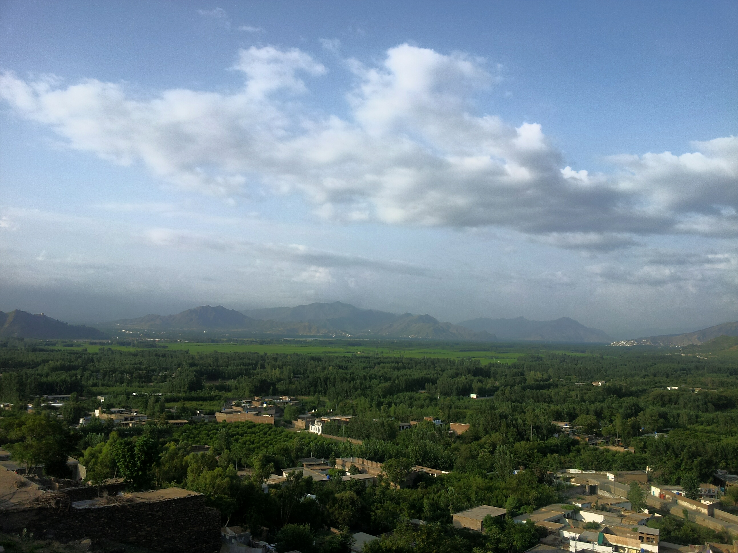 A click of a beautiful valley Alladand from the top of mountains